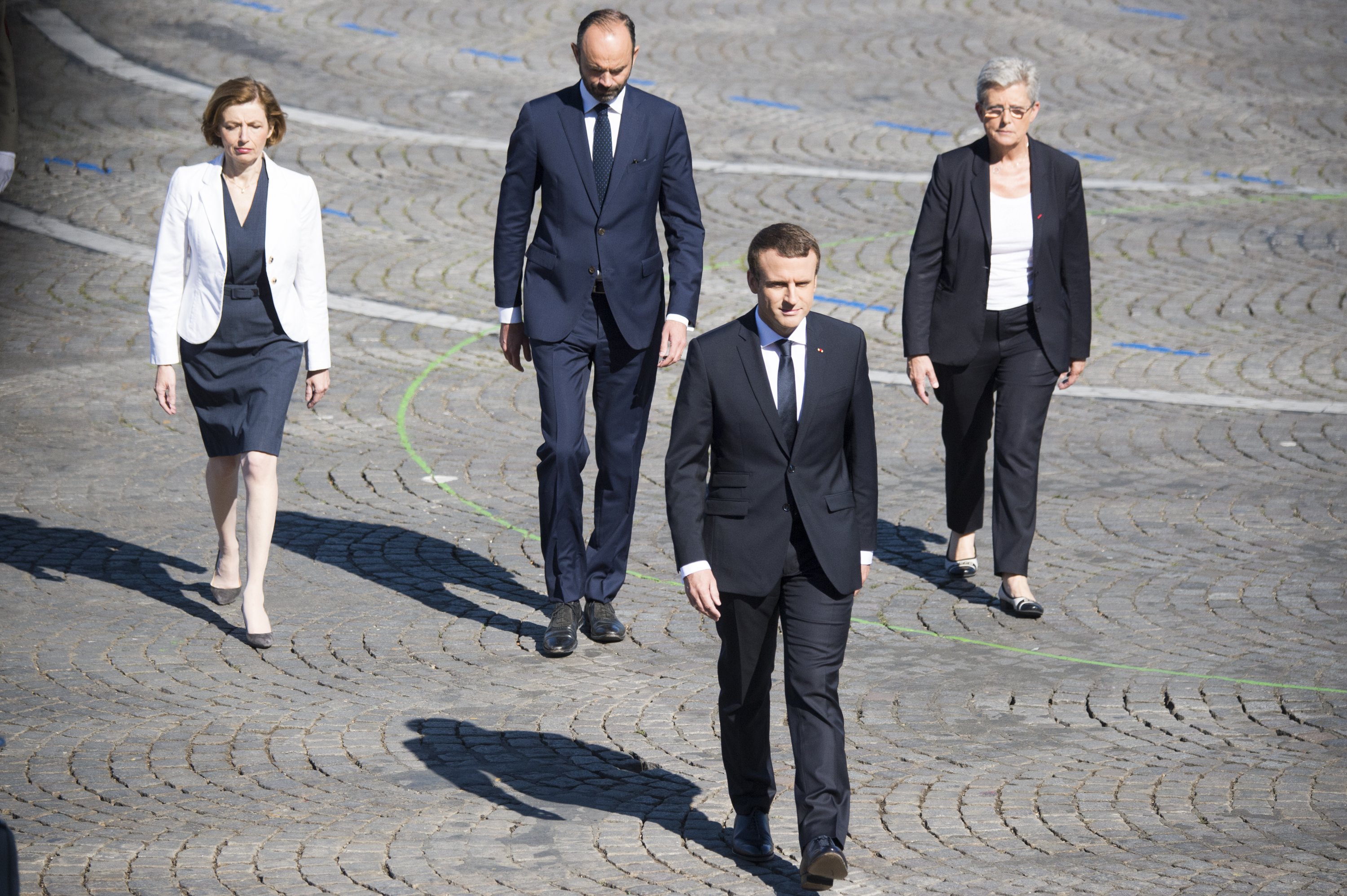 French President Emmanuel Macron arrives at the reviewing stand for the Bastille Day military parade in Paris, July 14, 2017. Macron and Trump recognized the continuing strength of the U.S.-France alliance from World War I to today. DoD photo by Navy Petty Officer 2nd Class Dominique Pineiro